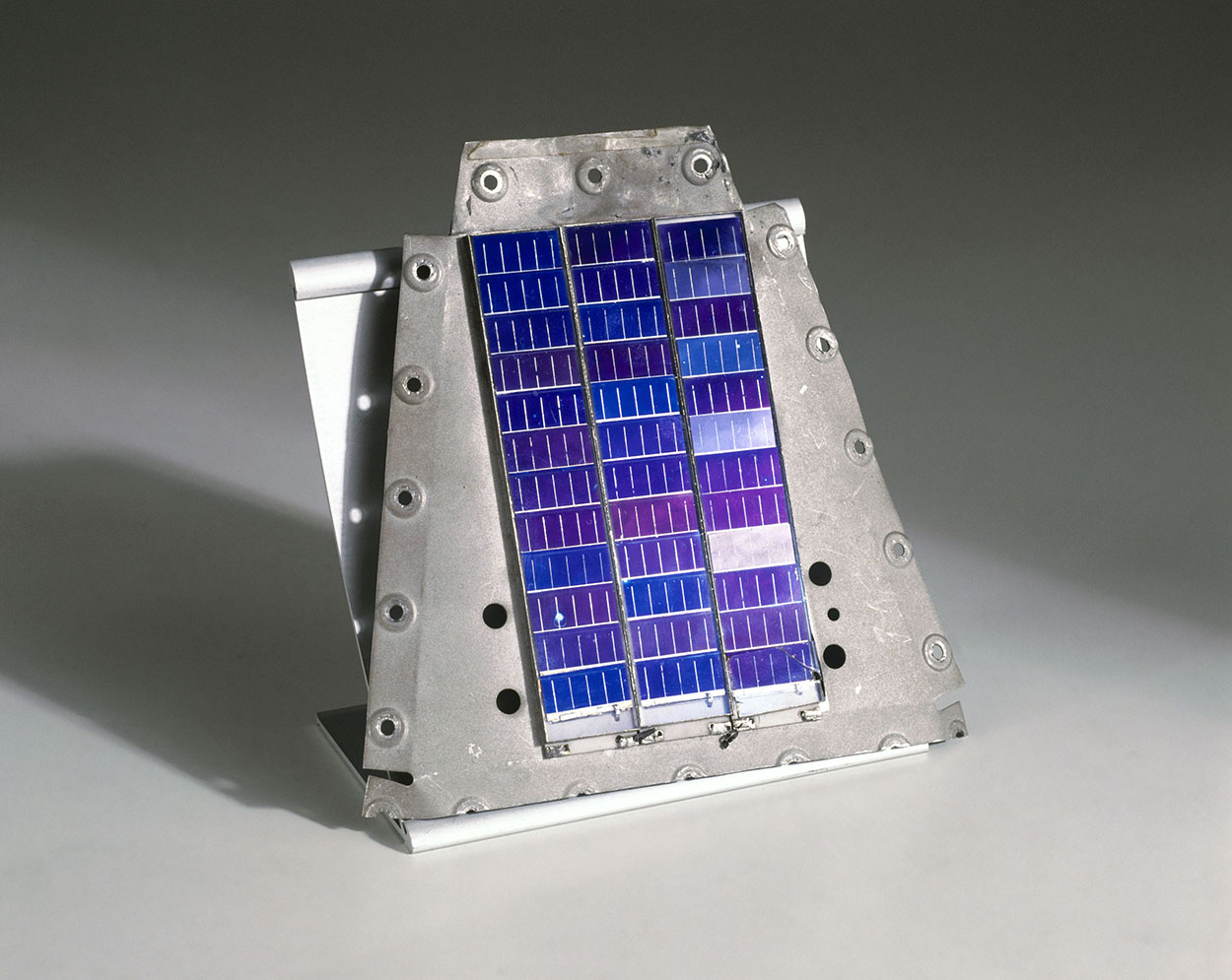 A cell like this one from the communications satellite 'Telstar' will produce only a small voltage, but a large number of cells wired together provides all the energy needed to receive and transmit signals to and from the Earth. It is possible to use solar cells on Earth as an alternative source of energy, but they are better suited to provide the smaller amounts of energy needed by small spacecraft.